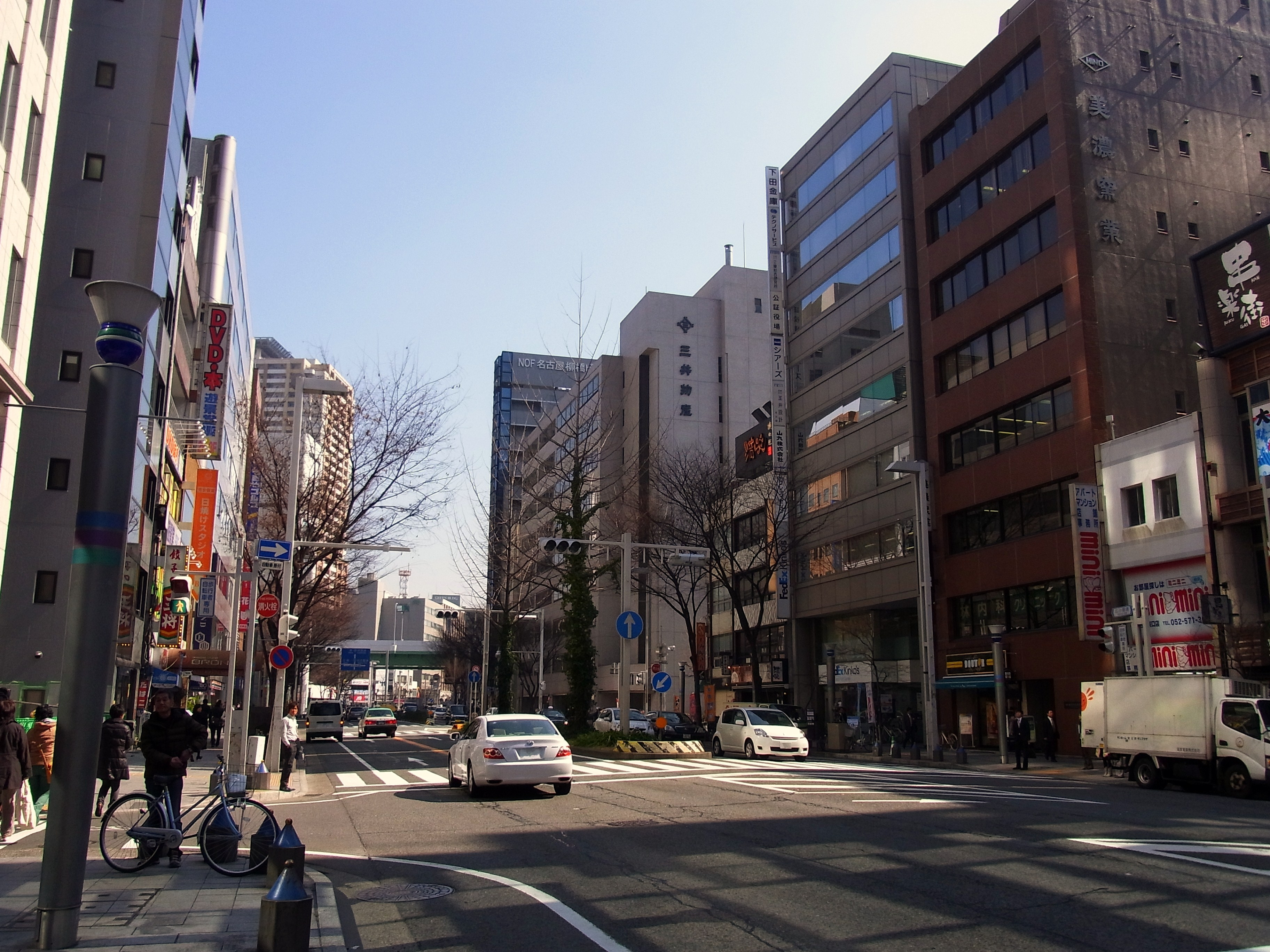 Hirokoji-dori in Nakamura-ku, Nagoya City.